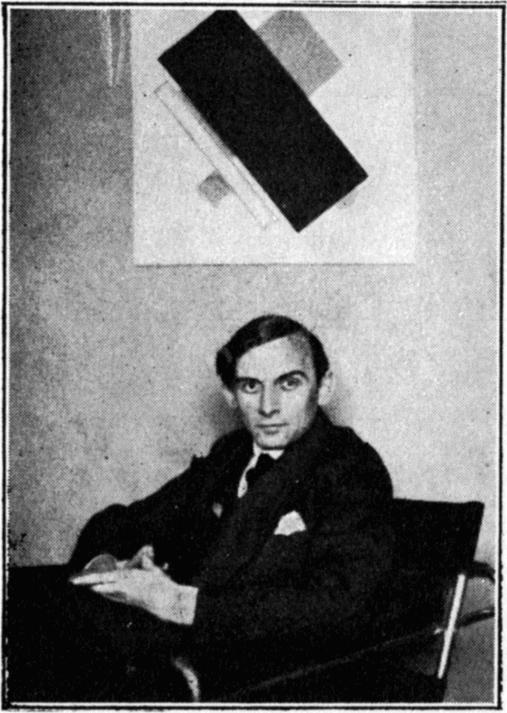 Friedrich Vordemberge-Gildewart. From De Stijl, vol. 7, nr. 79/84 (1927): p. 106.